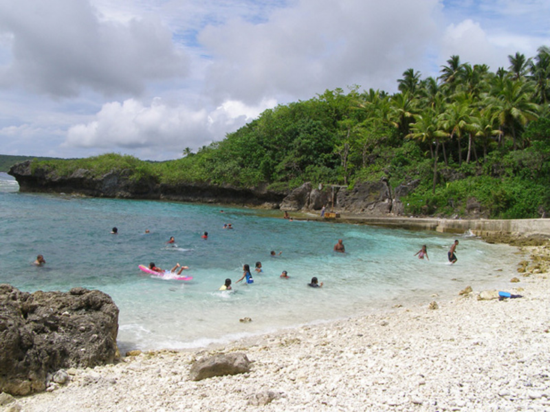 Swimmers enjoying the cool, pristine waters of Avatele Beach, Niue.